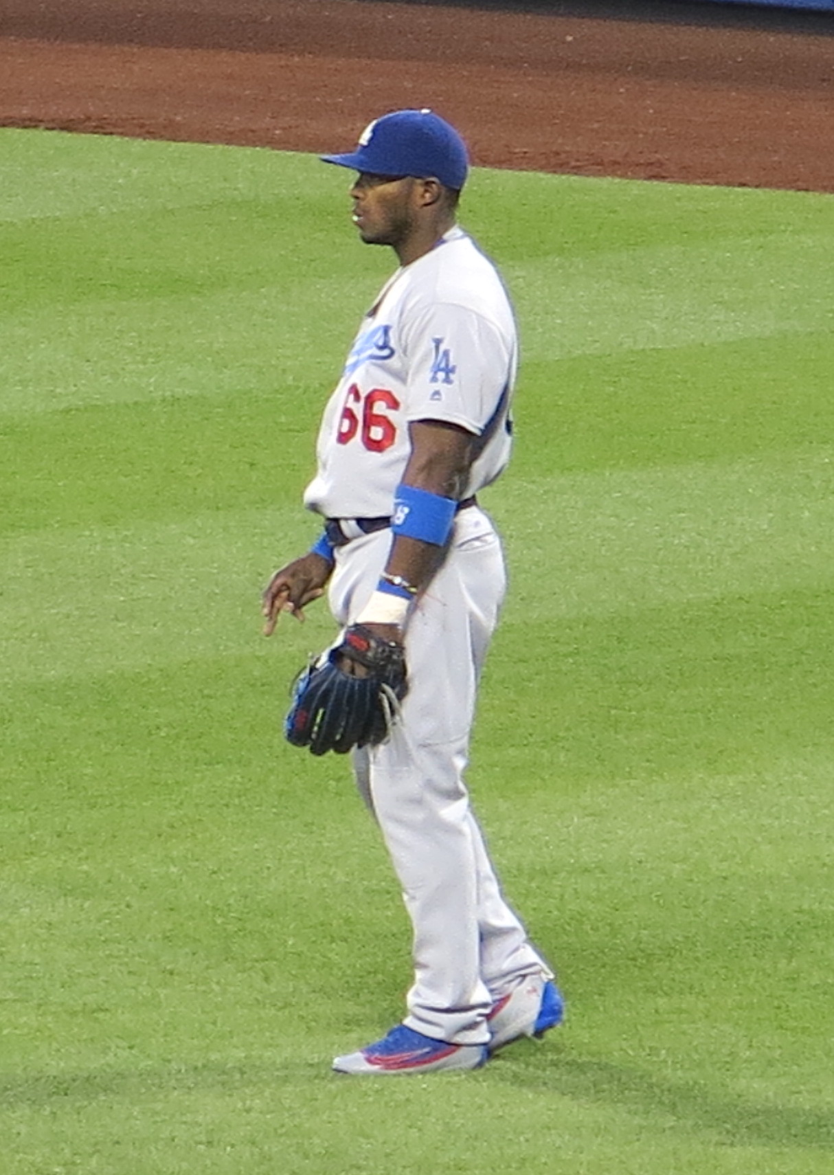 Yasiel Puig with the Los Angeles Dodgers, May 29, 2016.